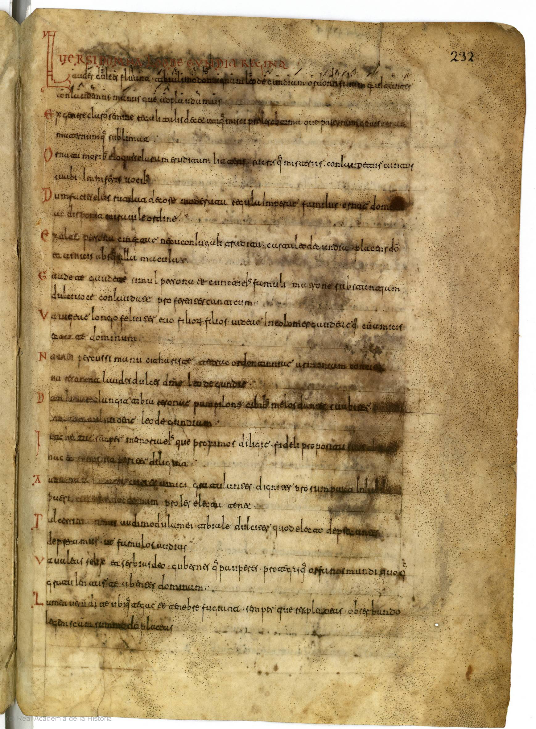 Chant to Leodegundia, Roda Codex, front page, beginning with musical notations on 1st verses. Verse initials also form an acrostic.